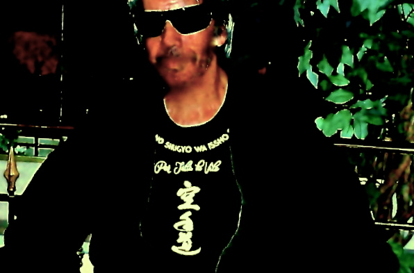 Pino Presti 2016